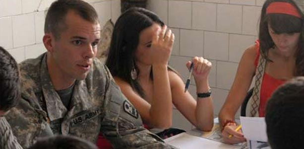 A Soldier with the Iowa National Guard explains an essay assignment to a group of students at a Youth Center in Kosovo in preparation for an English language test.